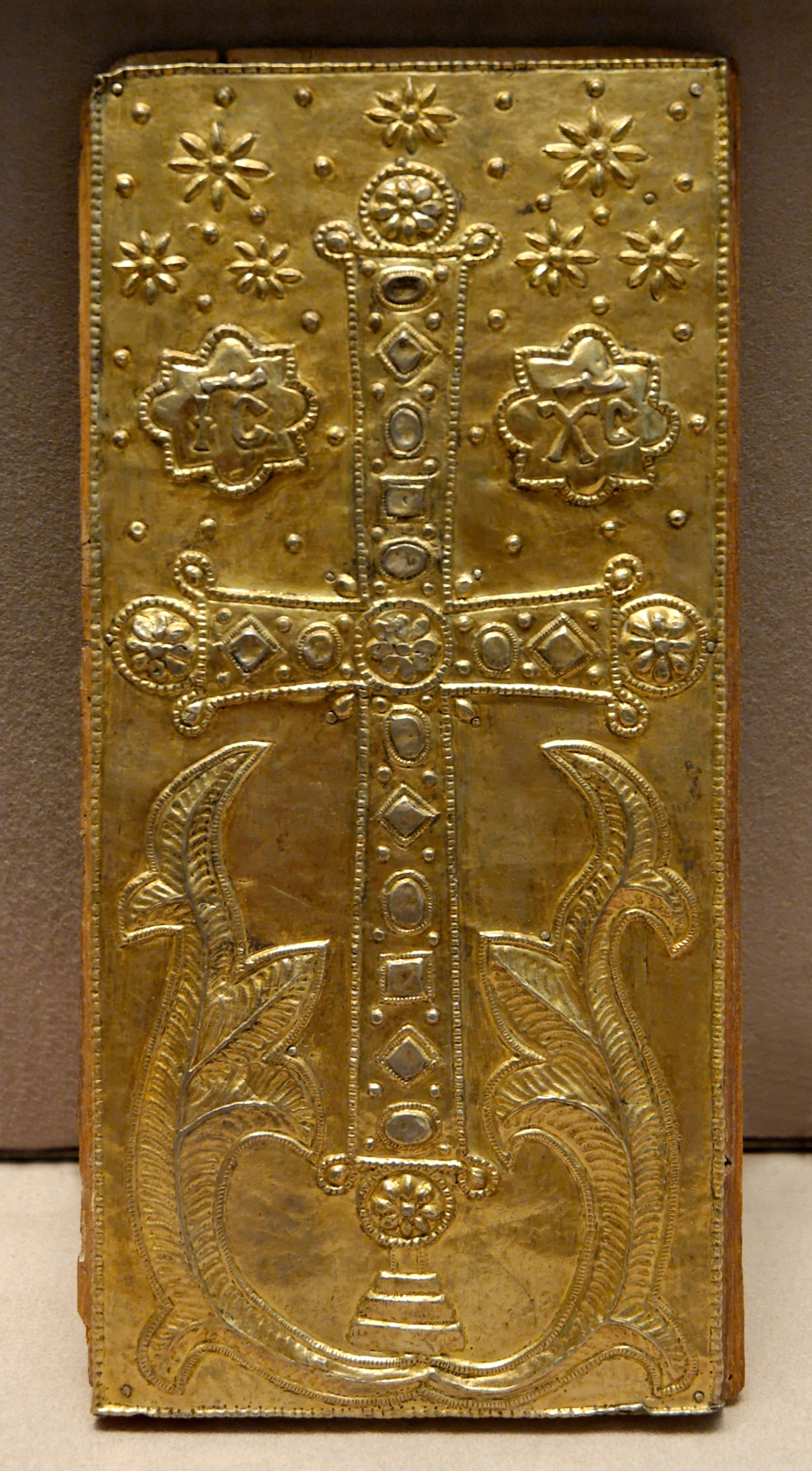 Sliding lid with the cross, from the treasury of the Sainte-Chapelle in Paris. Gilded silver, wax and paint, Byzantium, 12th century.